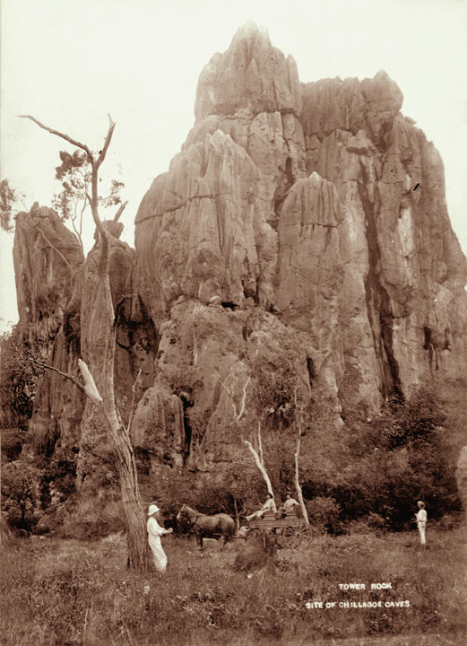 View of Tower Rock, a buckboard and three men at the site of Chillagoe Caves. (Also known as Chillagoe Mungana Caves National Park.)